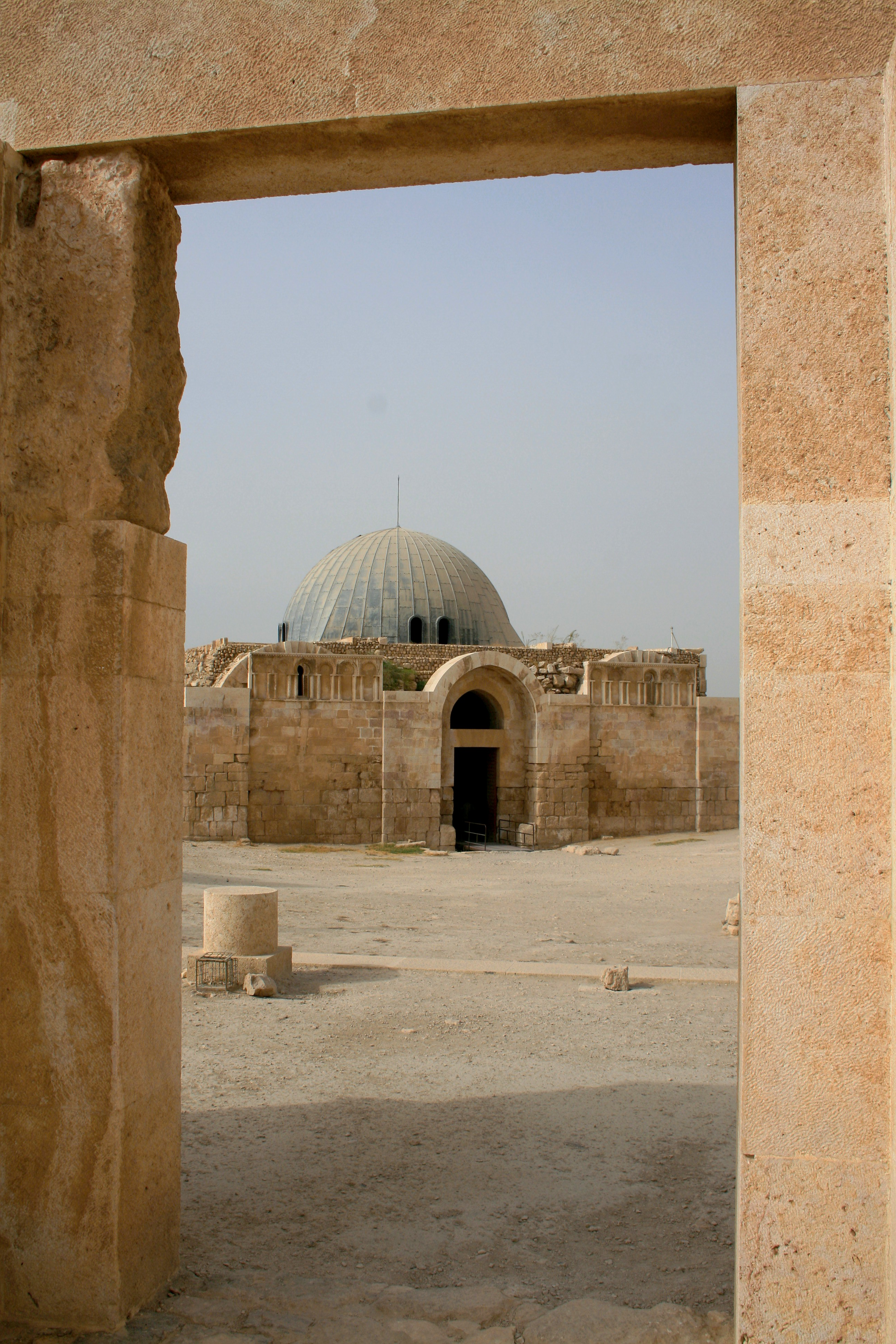 Umayyad Qasr, Amman, Jordan